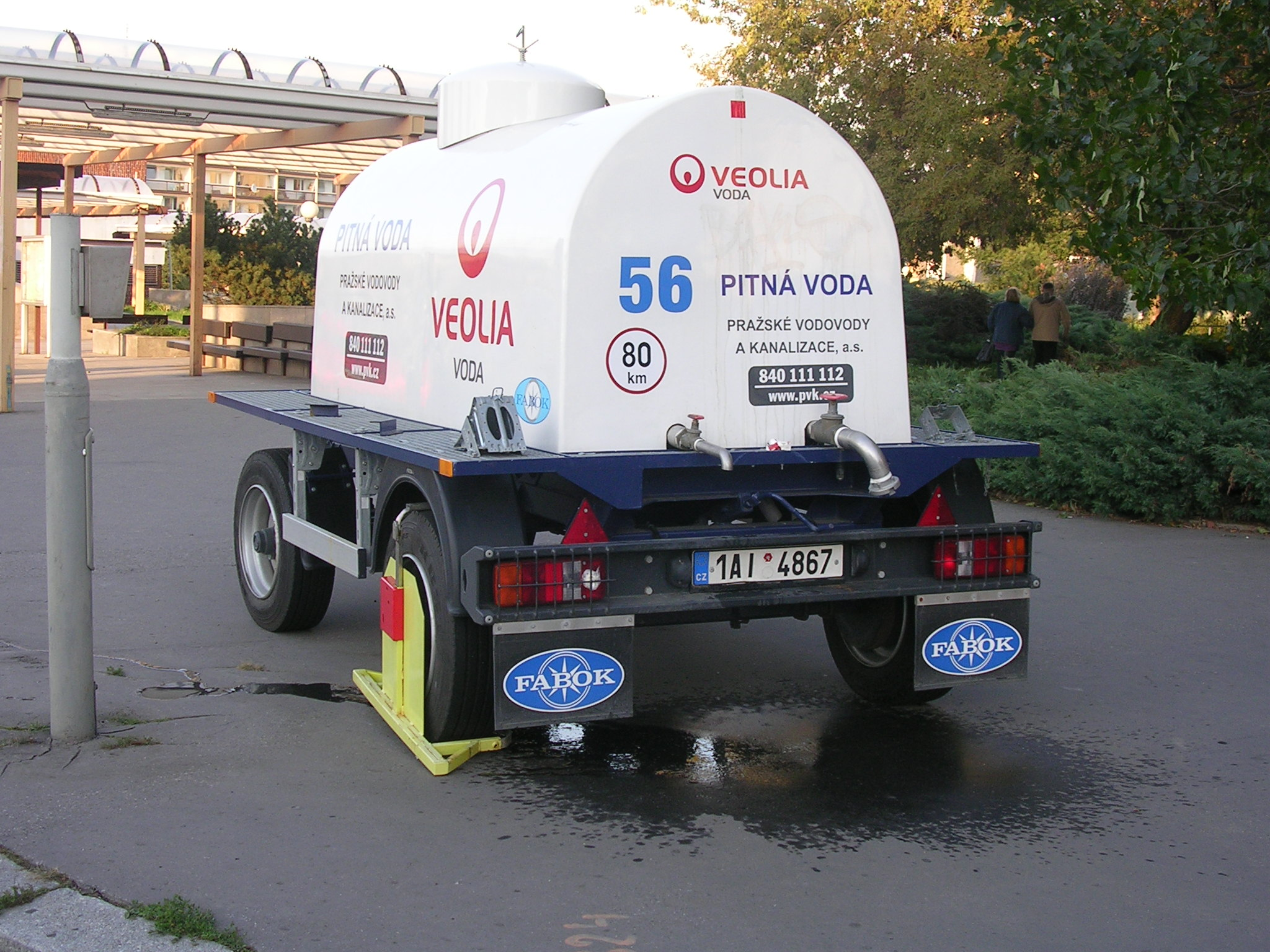 Prague-Strašnice, the Czech Republic. Drinkwater tank near Skalka metro station. Drinking water trailer.